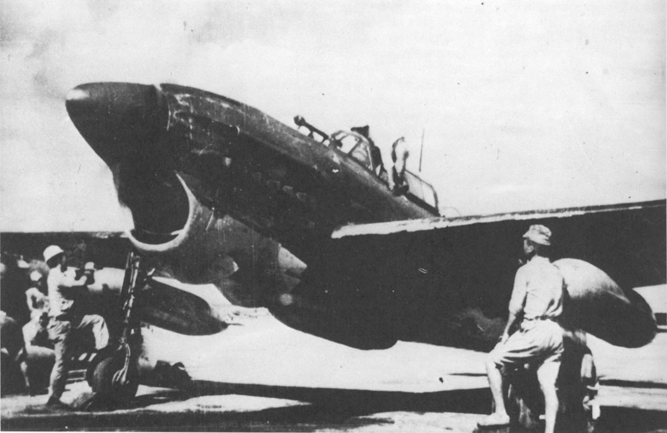 Yokosuka D4Y1 Suisei („Comet“) Imperial Japanese Navy dive bomber and recce at takeoff in 1942